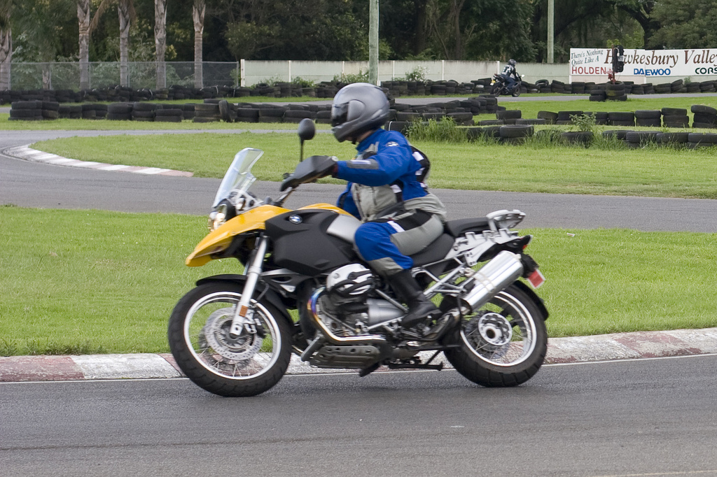 BMW's R1200GS is a surprisingly competent track bike